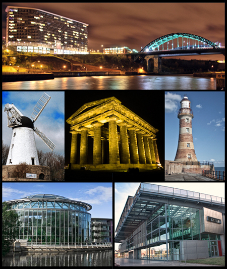 Sunderland montage